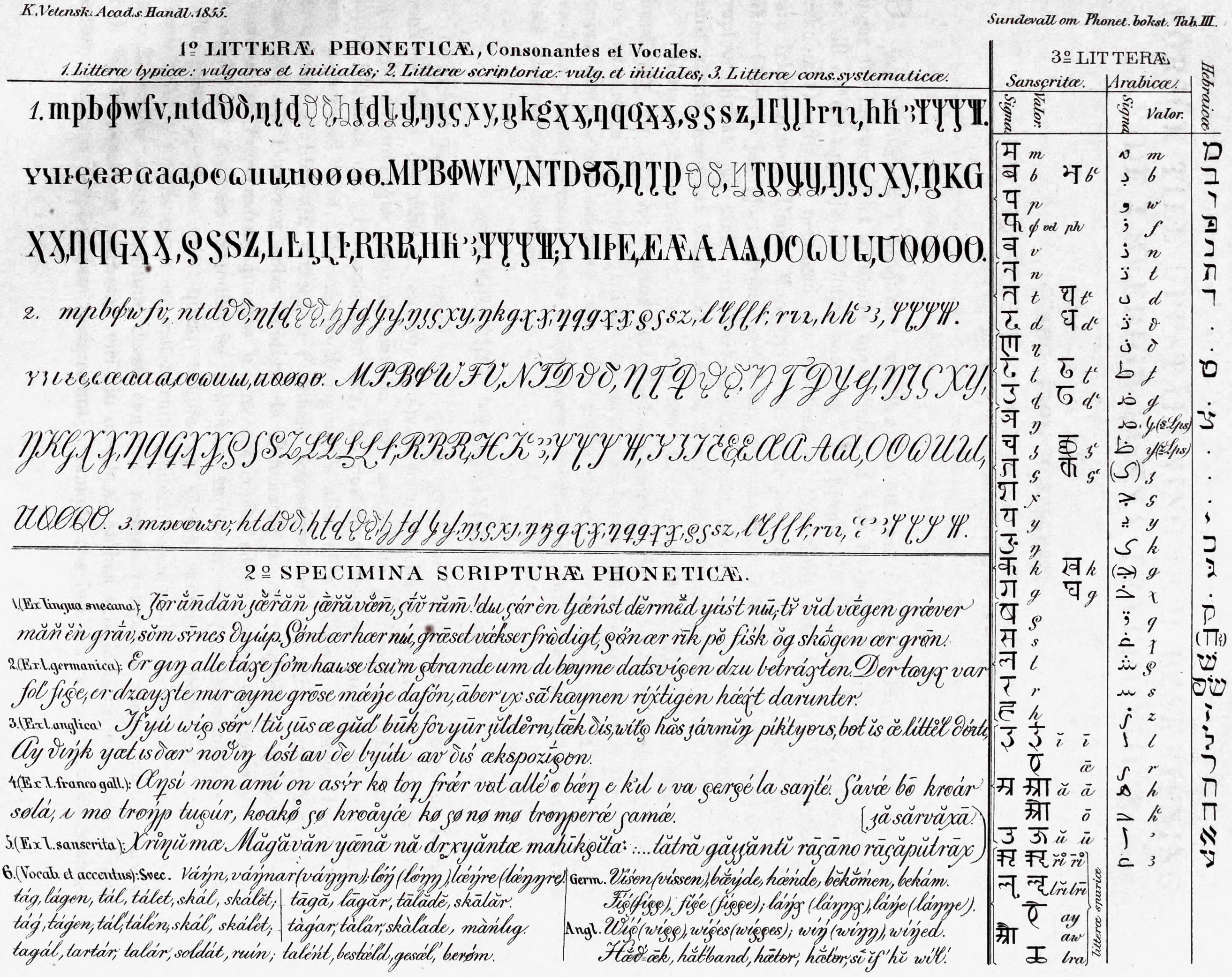 A page from Sundevall's Om phonetiska bokstafver